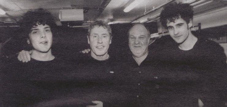 The man next to Peter is Roger Daltrey of the Who and the man next to Robert Been is a promoter named Harvey Goldsmith. Or, more simply, left to right Peter Hayes, Roger Daltrey, Robert Been and Harvey Goldsmith.